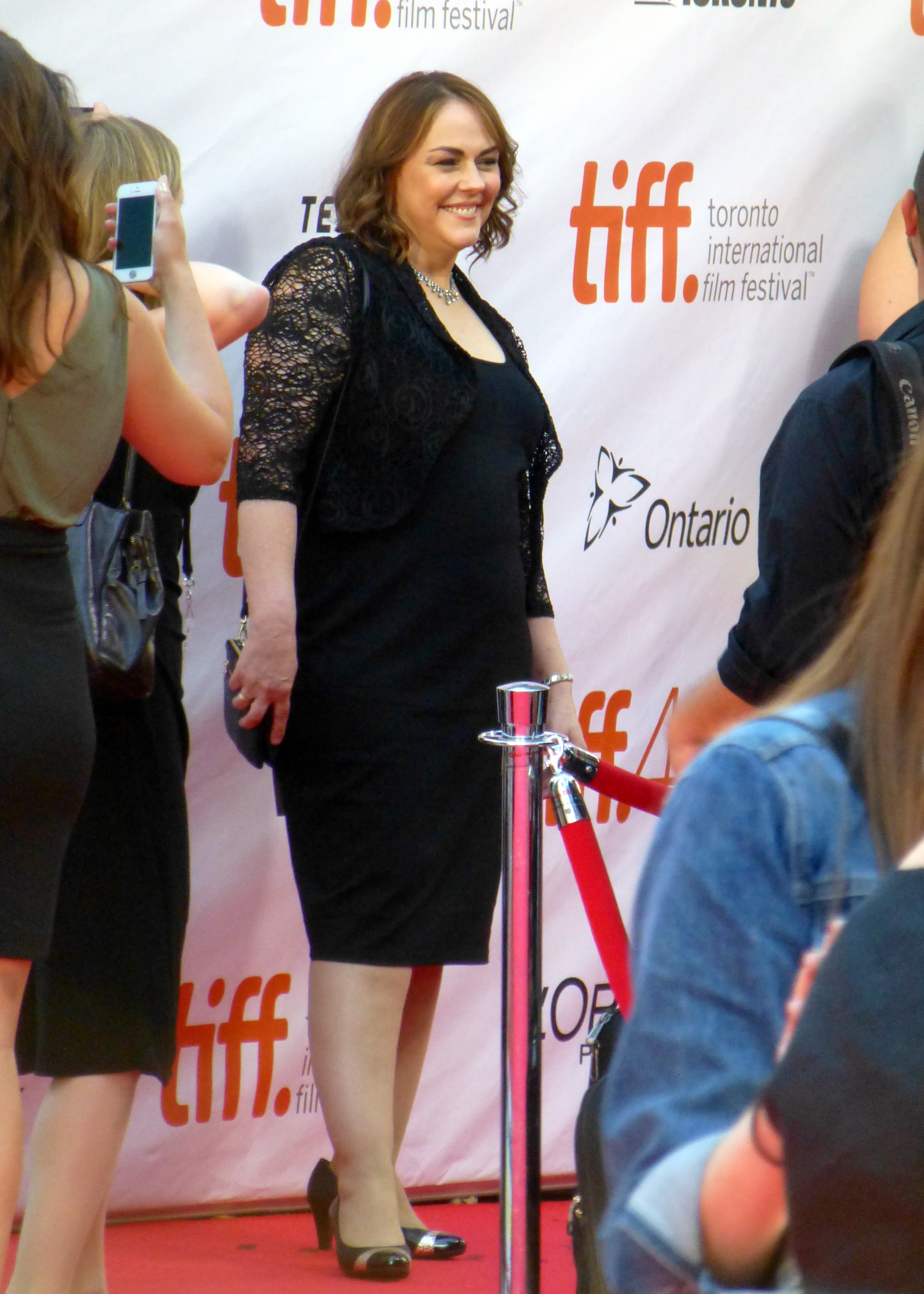 Director Jocelyn Moorhouse at the premiere of The Dressmaker, 2015 Toronto Film Festival